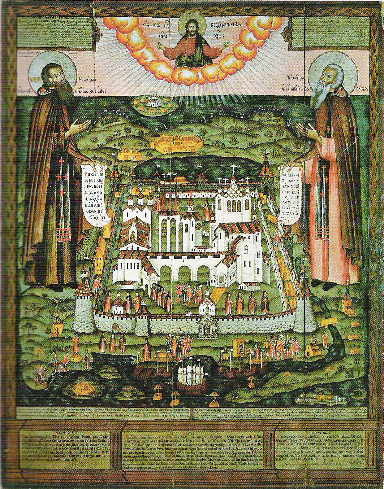 Icon of Saint Zosimas and Sabbatius from Constantine and Helena Church, Vologda, 1709, by Ivan Grigoriev Markov